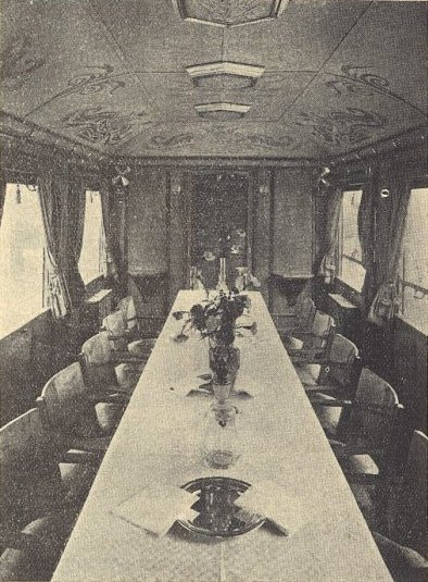 Private carriage of the Companhia dos Caminhos de Ferro do Norte de Portugal (Portuguese Northern Railways Company). It was part of a lot that was built by the Officine Ferroviarie Meridionali, of Naples, and delivered on September 1931. This photograph was published on the Gazeta dos Caminhos de Ferro magazine no. 1062, of the 16th March 1932, and scanned by the Hemeroteca Municipal de Lisboa.